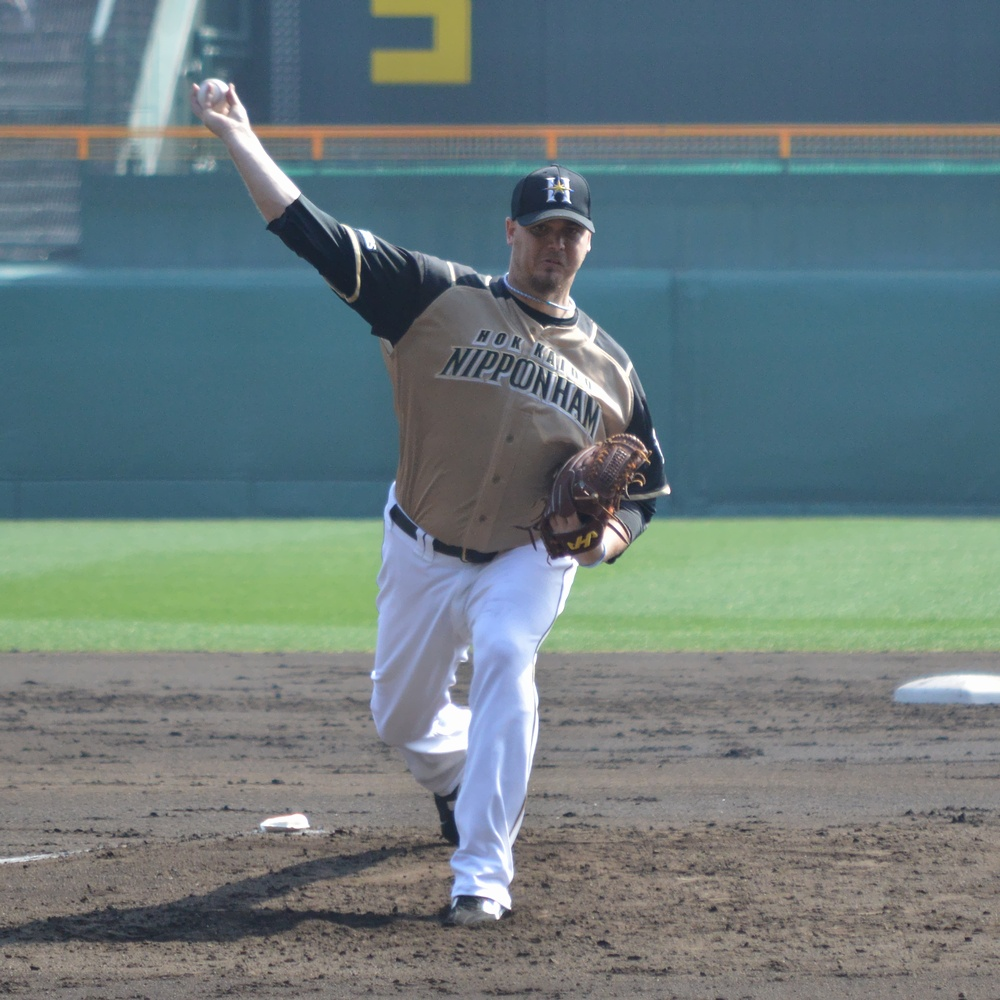 Brian Wolfe, pitcher of the Hokkaido Nippon-Ham Fighters, at Hanshin Koshien Stadium.